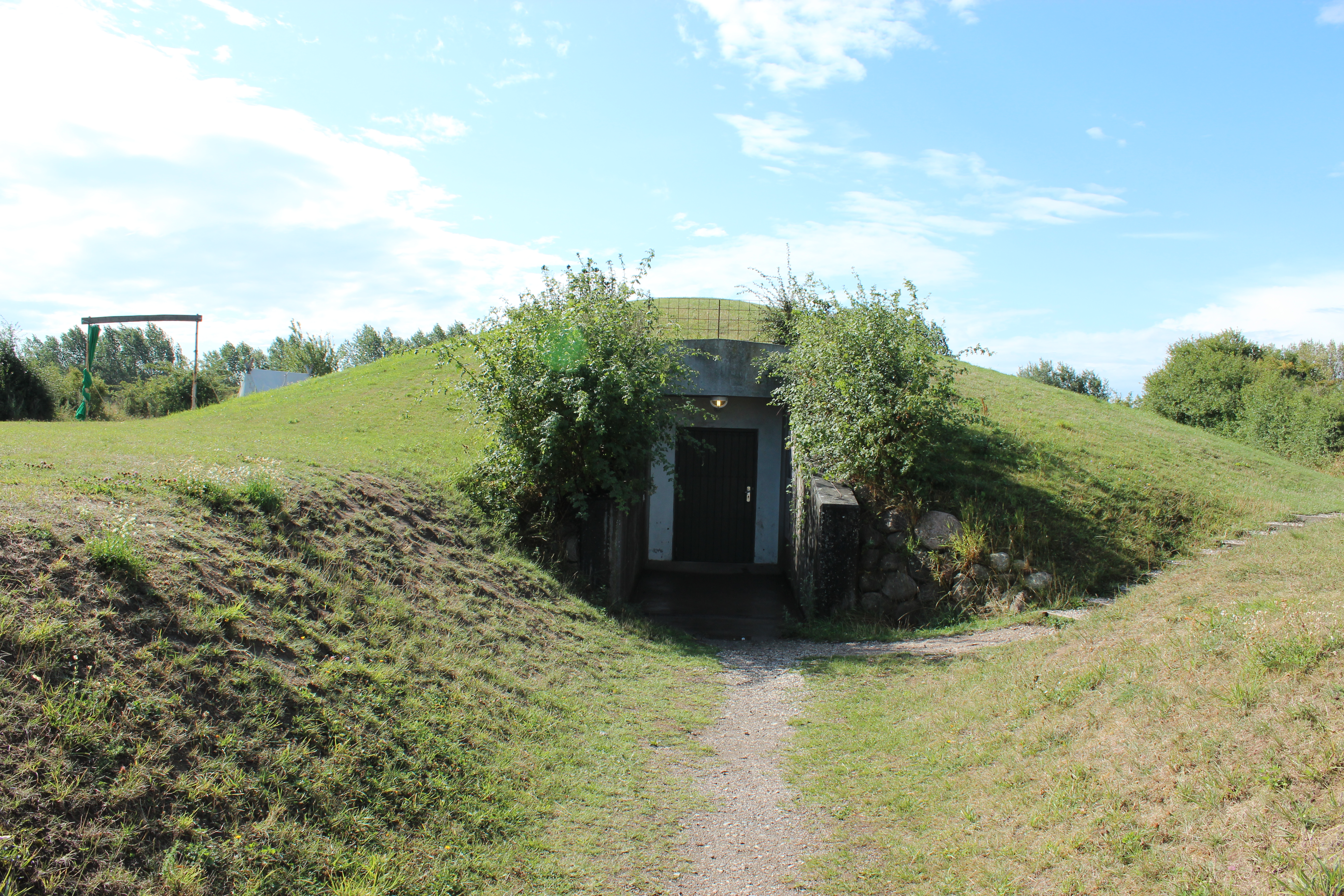 Modern entrance in the mount of Ladbyskibet